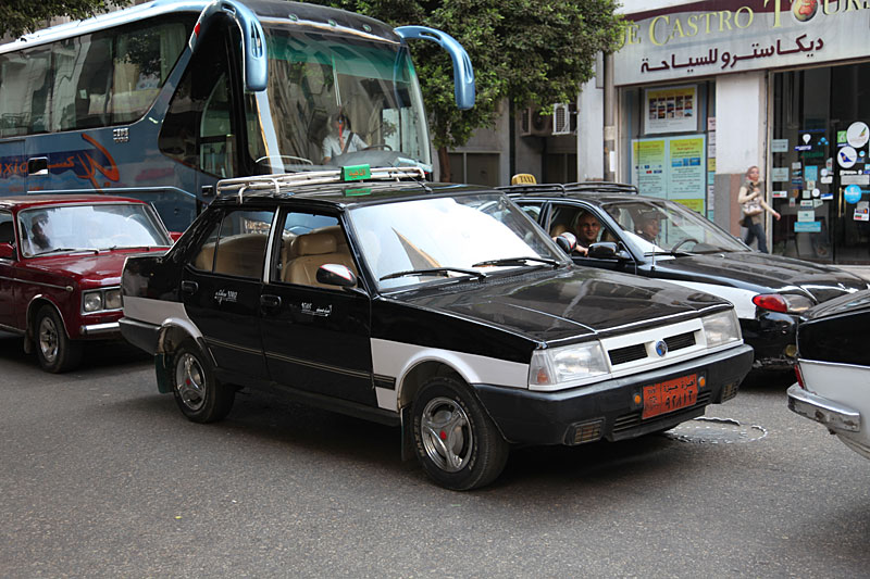 Original black-white taxicab in Cairo, Egypt